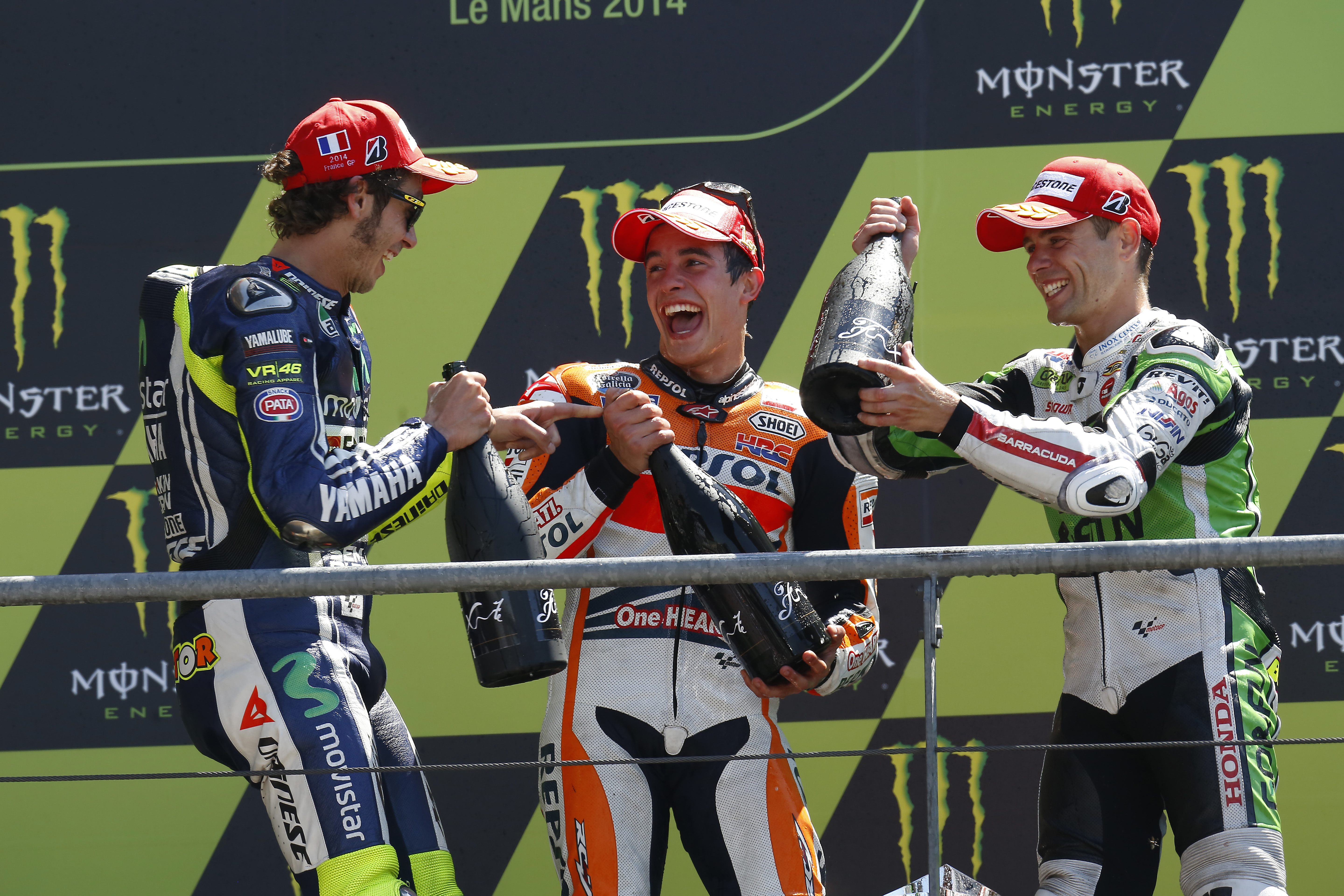 Valentino Rossi, Marc Márquez and Álvaro Bautista, celebrating on the podium after finishing in second, first and third place at the 2014 French Grand Prix.